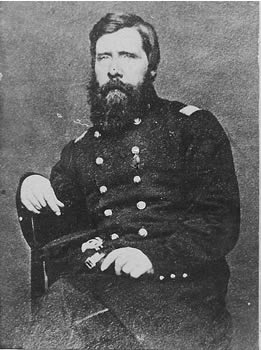 Col. James M. Brown, 100th New York Infantry, Civil War Period